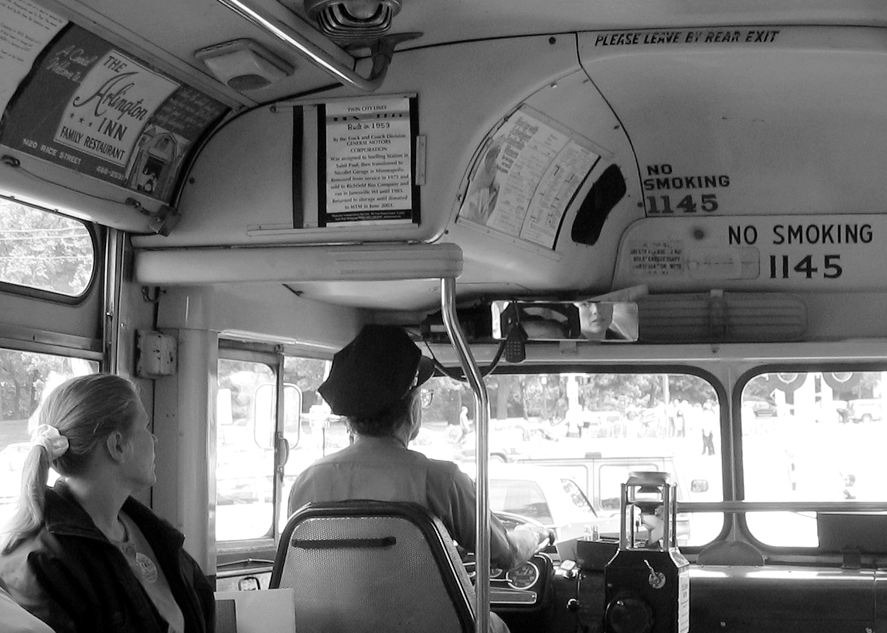 The Minnesota Transportation Museum pressed this classic bus back into service as part of the 2004 Hiawatha Light Rail grand opening in Minneapolis.